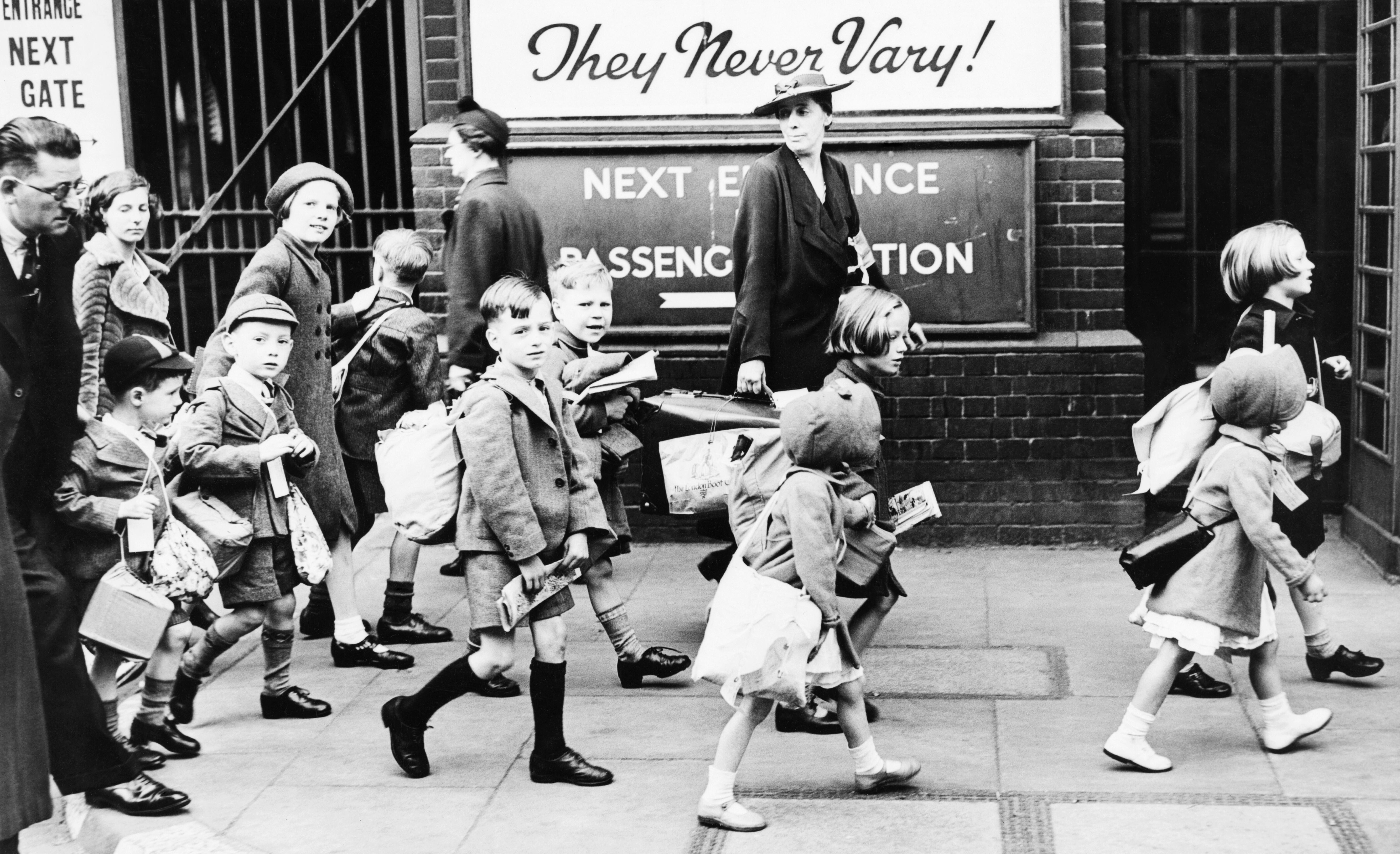 The Evacuation Scheme in Britain 1940 London schoolchildren off to the west of England. Photo shows: Children arriving at a London station this morning to leave for the West Country.